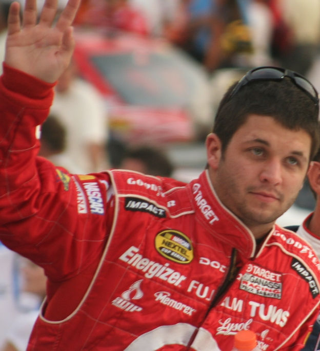 NASCAR driver Reed Sorenson in August 2007 at Bristol Motor Speedway. Cropped from original.